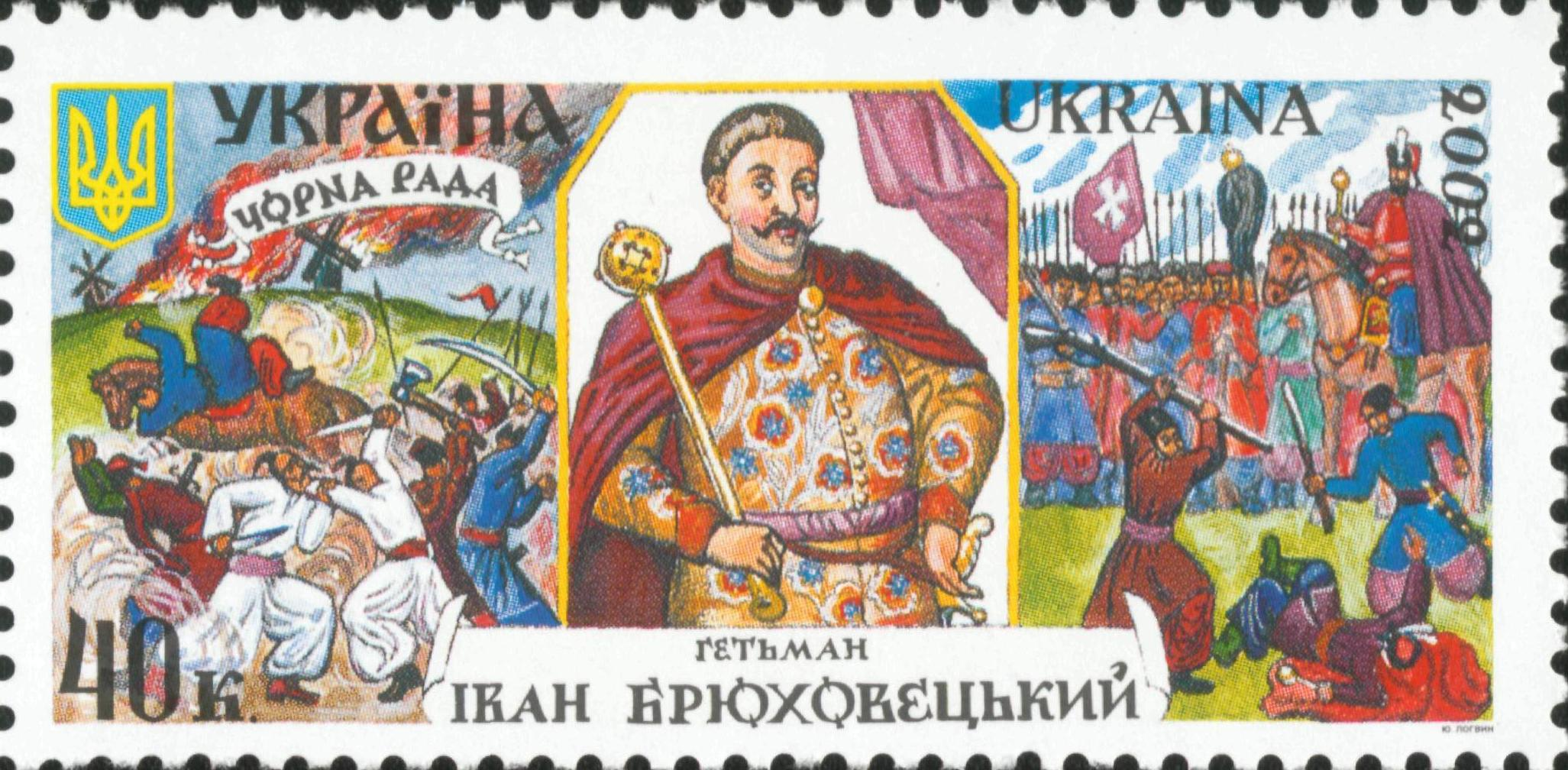 Stamp of Ukraine Марка Украины из серии Гетманы Украины. Иван Брюховецкий